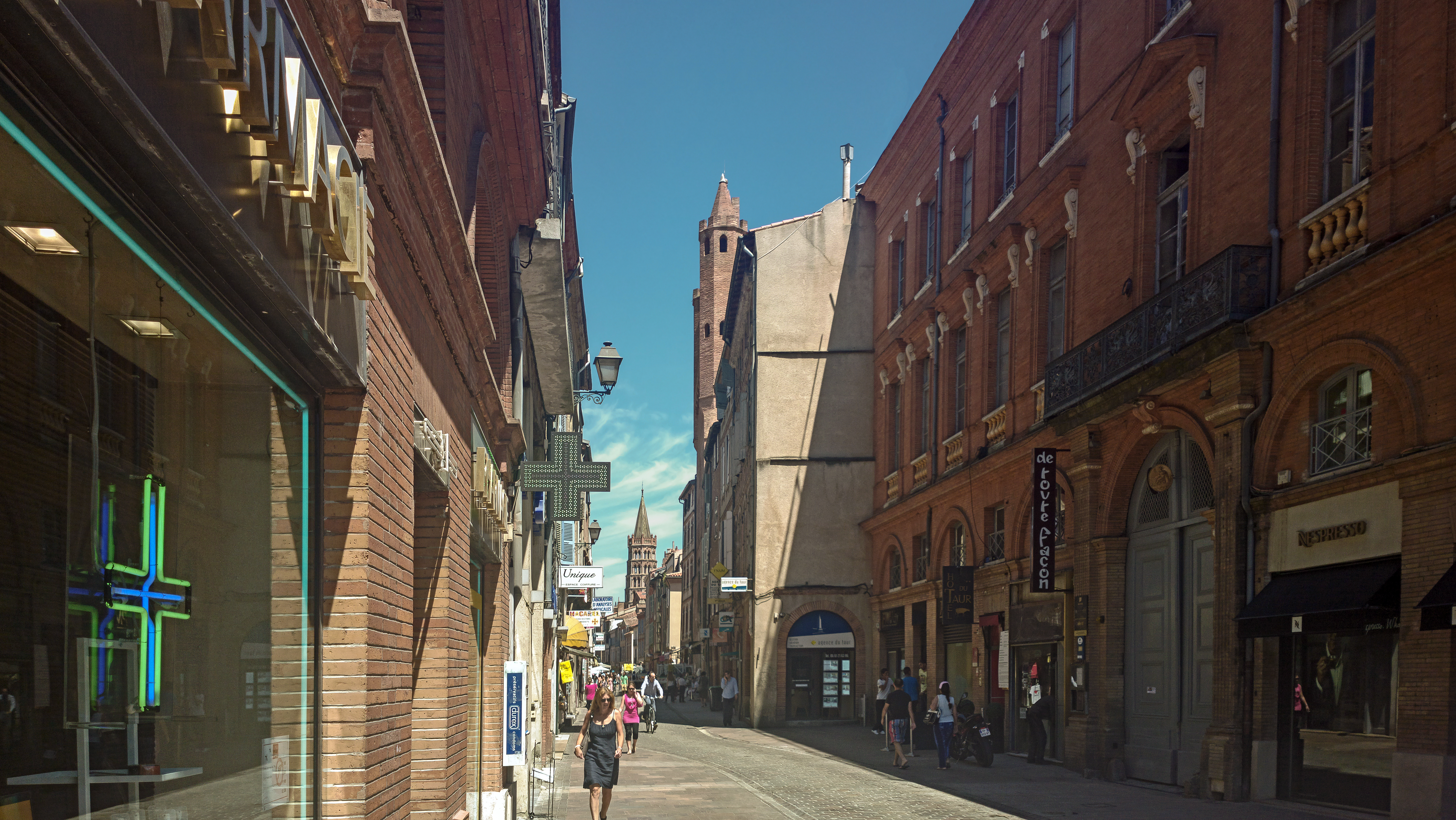 Rue du Taur in Toulouse. Full view from the Capitol Square.